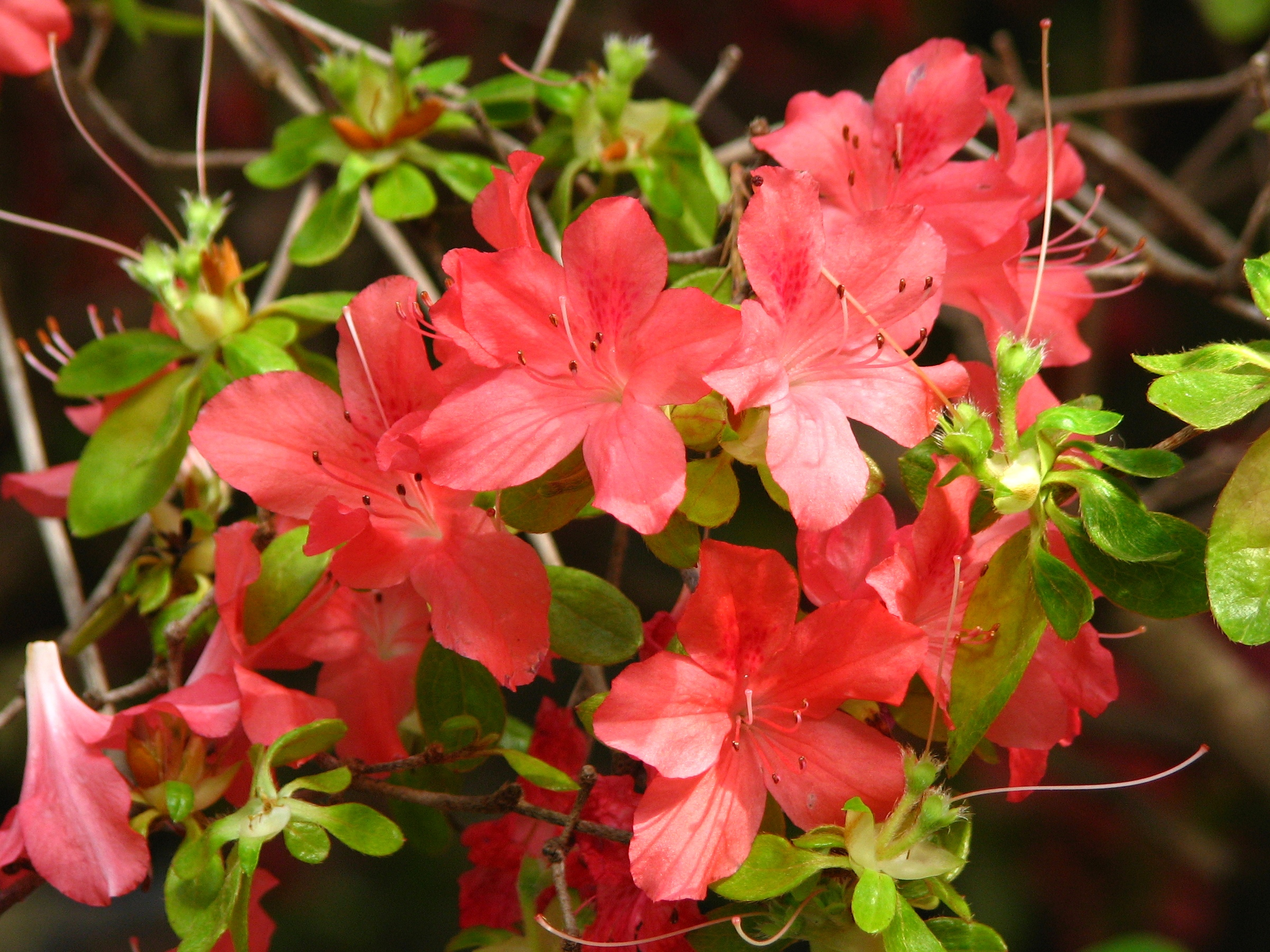 Rhododendron 'Addy Wery'. From the collection of the Stock greenhouse of the Main Moscow Botanical Garden of Academy of Sciences.